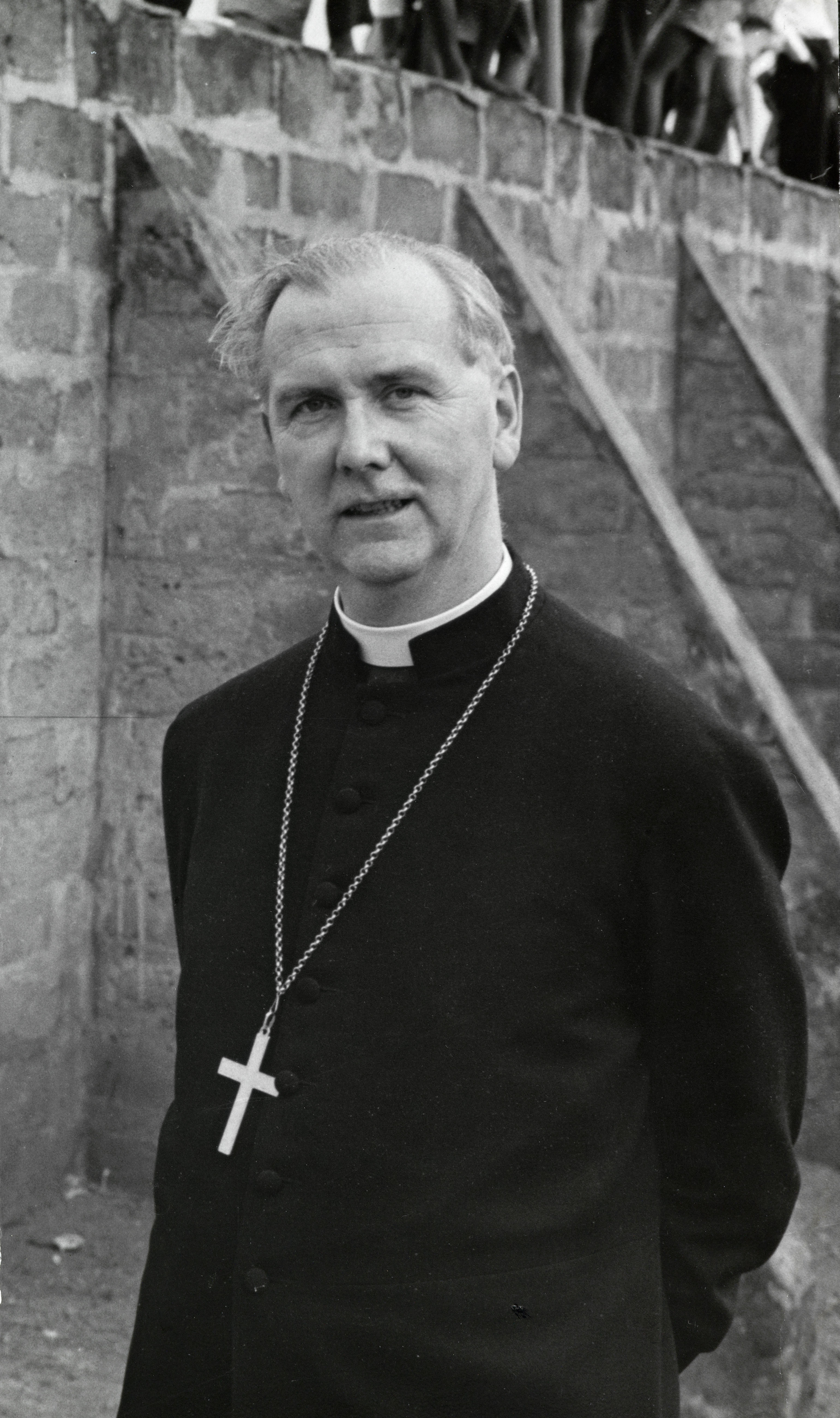 Beskrivelse / Description: Kaare Støylen var bl.a. biskop i Agder fra 1973-1978. Dato / Date: 1965 Sted / Place: Nigeria Fotograf / Photographer: John Taylor (Geneva) Digital kopi av original / Digital copy of original: s/h papirpositiv Eier / Owner Institution: Nasjonalbiblioteket / National Library of Norway Lenke / Link: Bildesignatur / Image Number: blds_06836